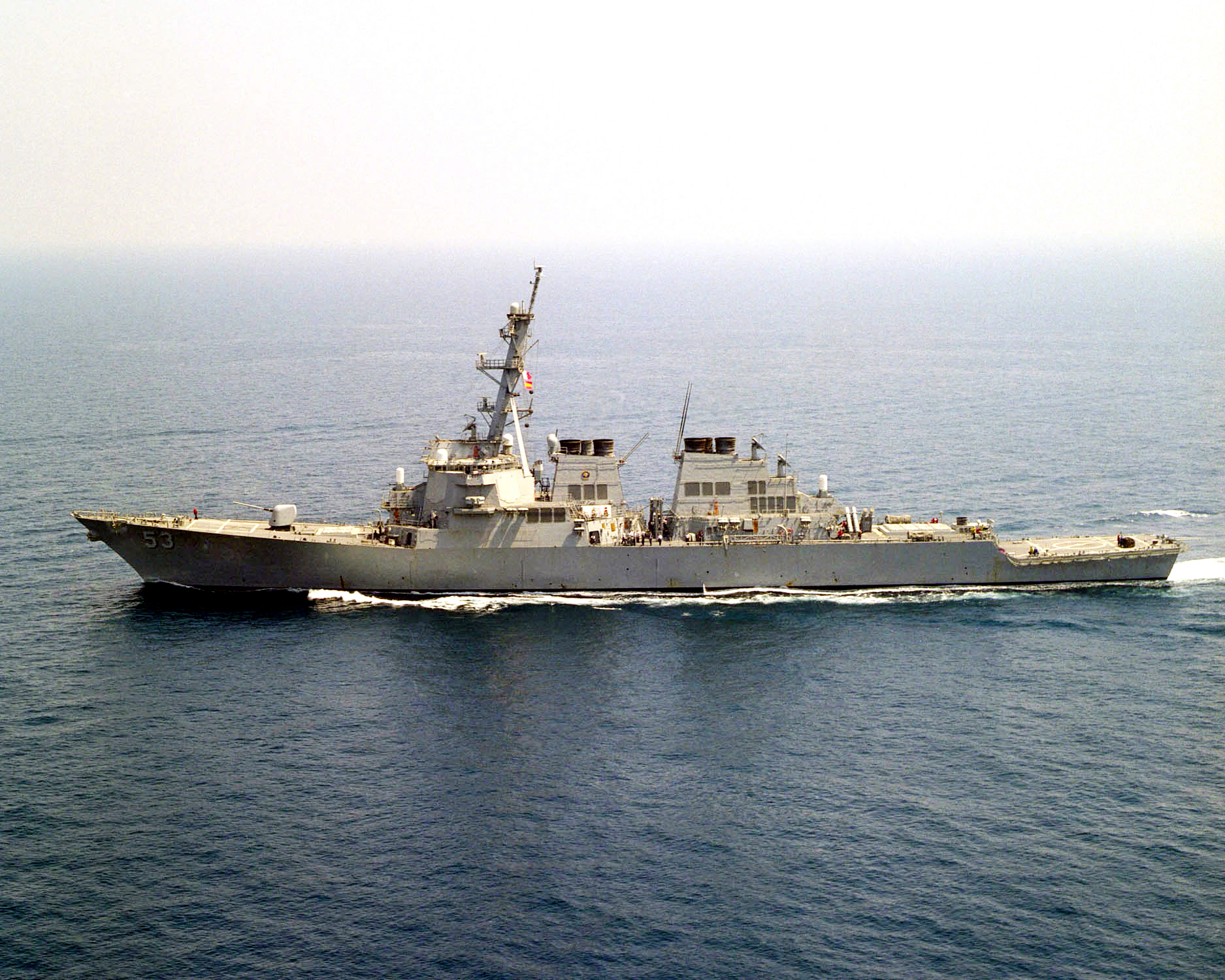 010905-N-6259P-002 Forward Deployed in the Persian Gulf (Sep. 5, 2001) -- The guided missile destroyer USS John Paul Jones (DDG 53) awaits the return of a helicopter slung with cargo during a vertical replenishment operation. John Paul Jones is currently underway in the Persian Gulf in support of Operation Southern Watch.